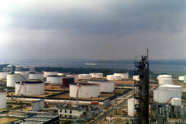 Queen Elizabeth 2 from inside Fawley oil refinery